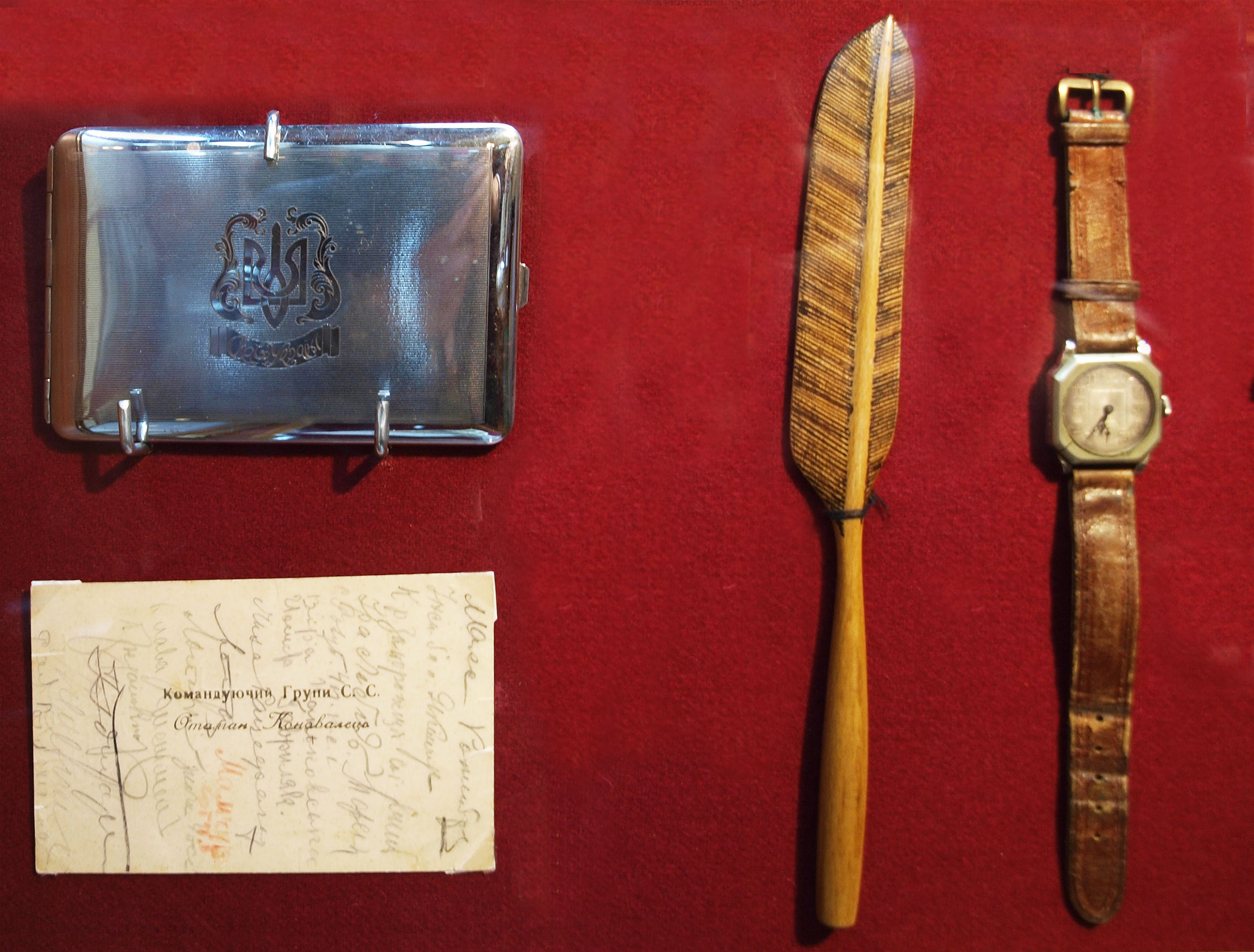 Konovalets' personal belongings